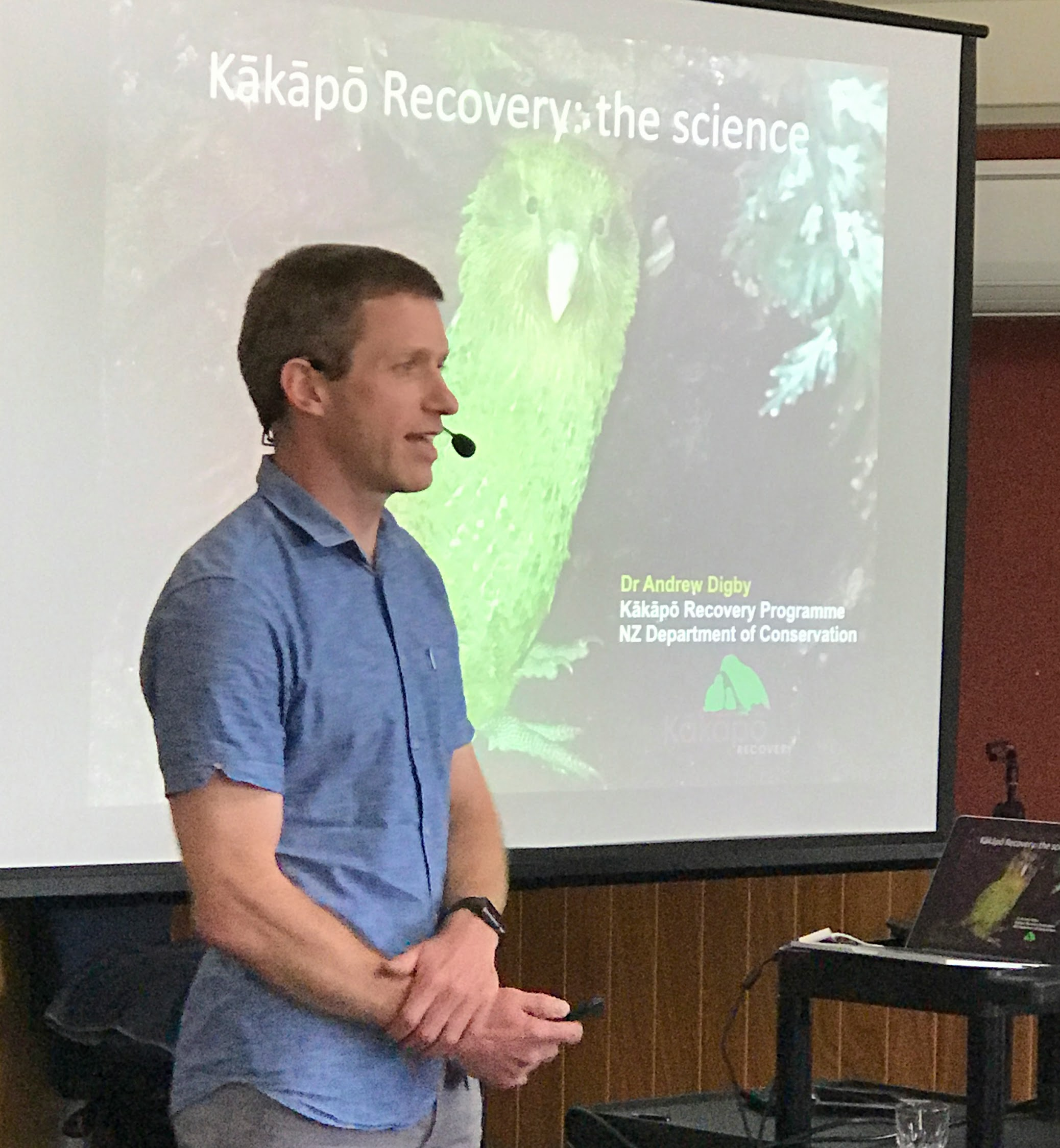 Andrew Digby at New Zealand Skeptic Conference